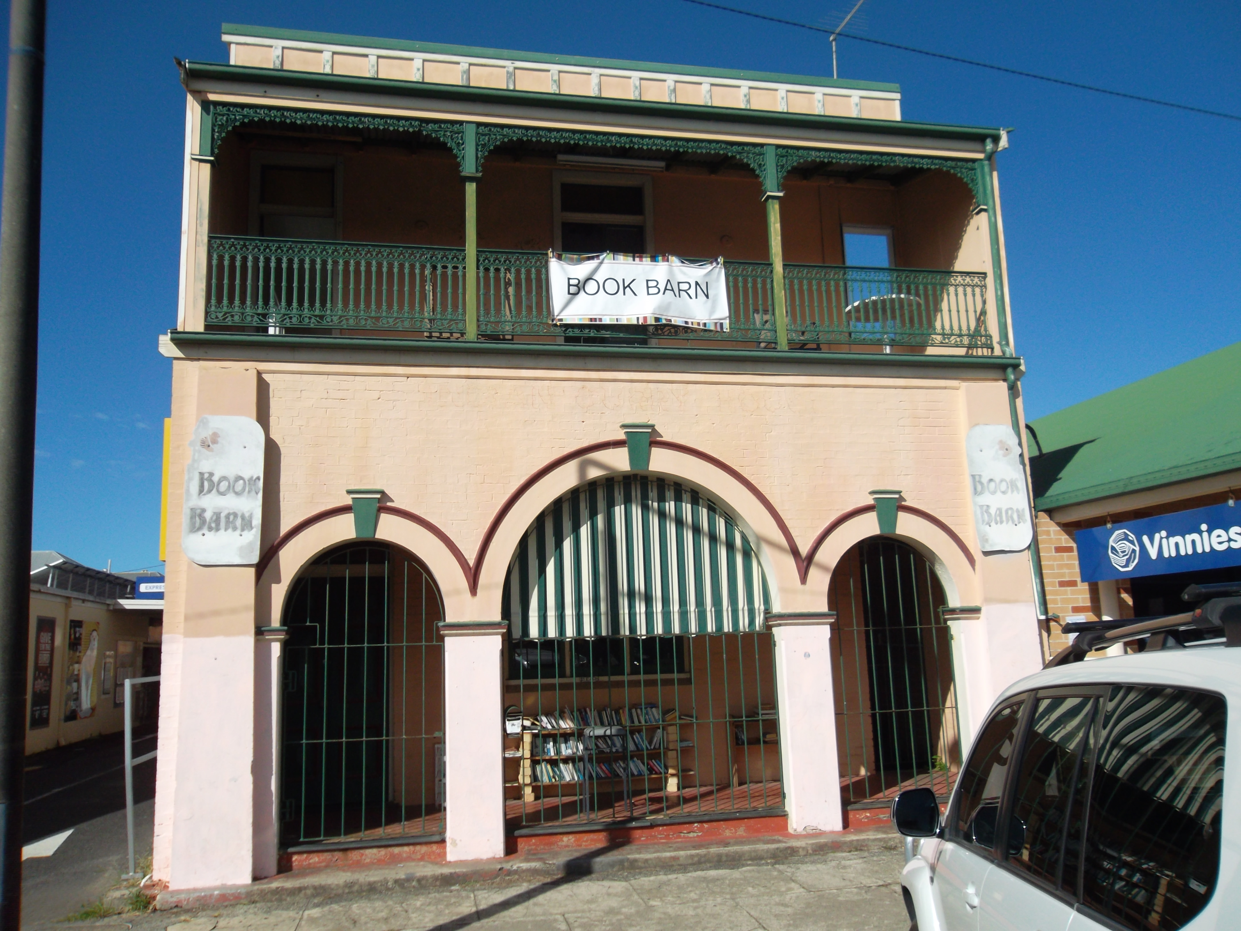 The Book Barn, a secondhand bookstore in Dalley Street, Mullumbimby. The building is an example of late 19th/early 20th century Australian architecture.